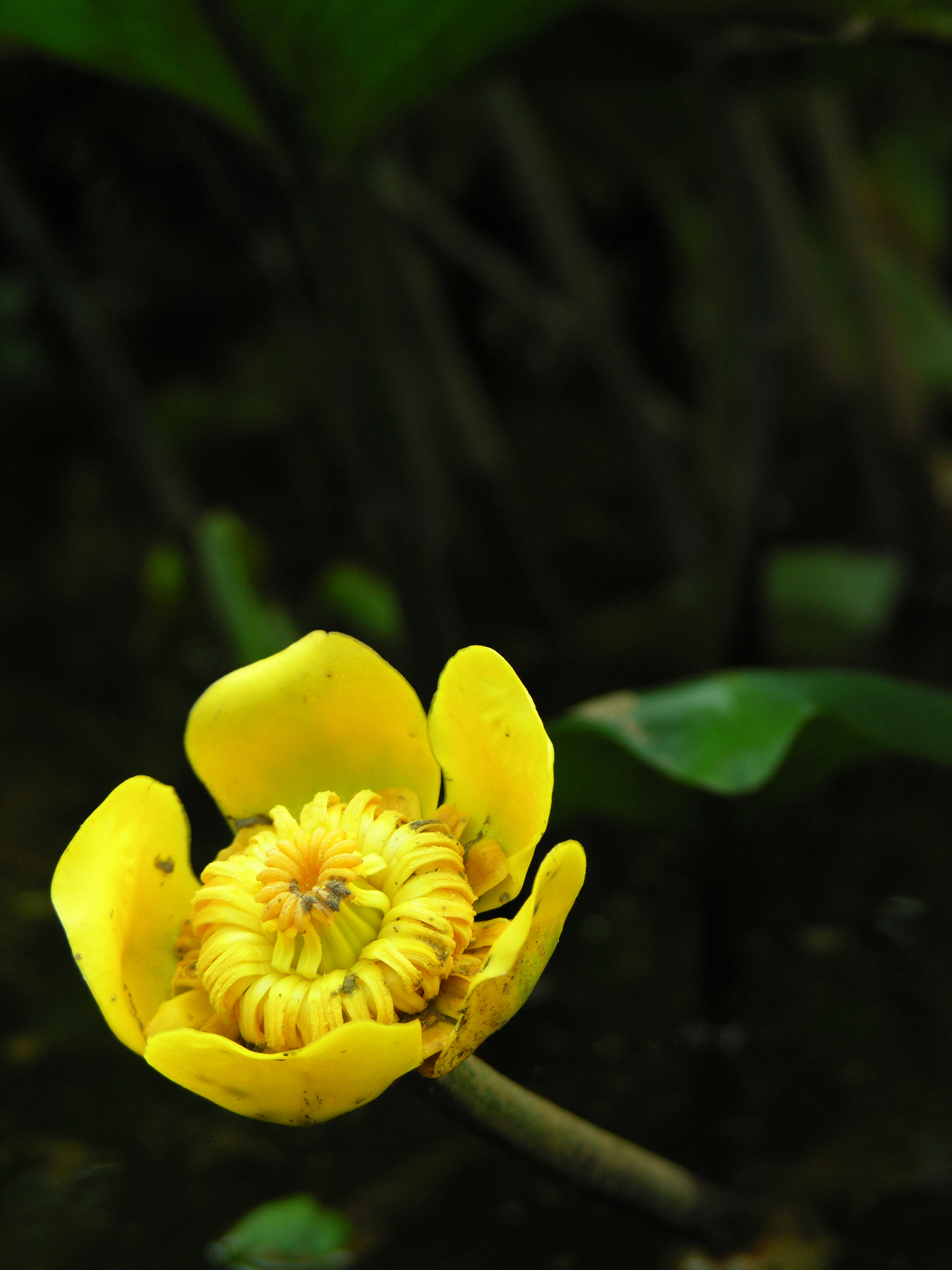 Nuphar